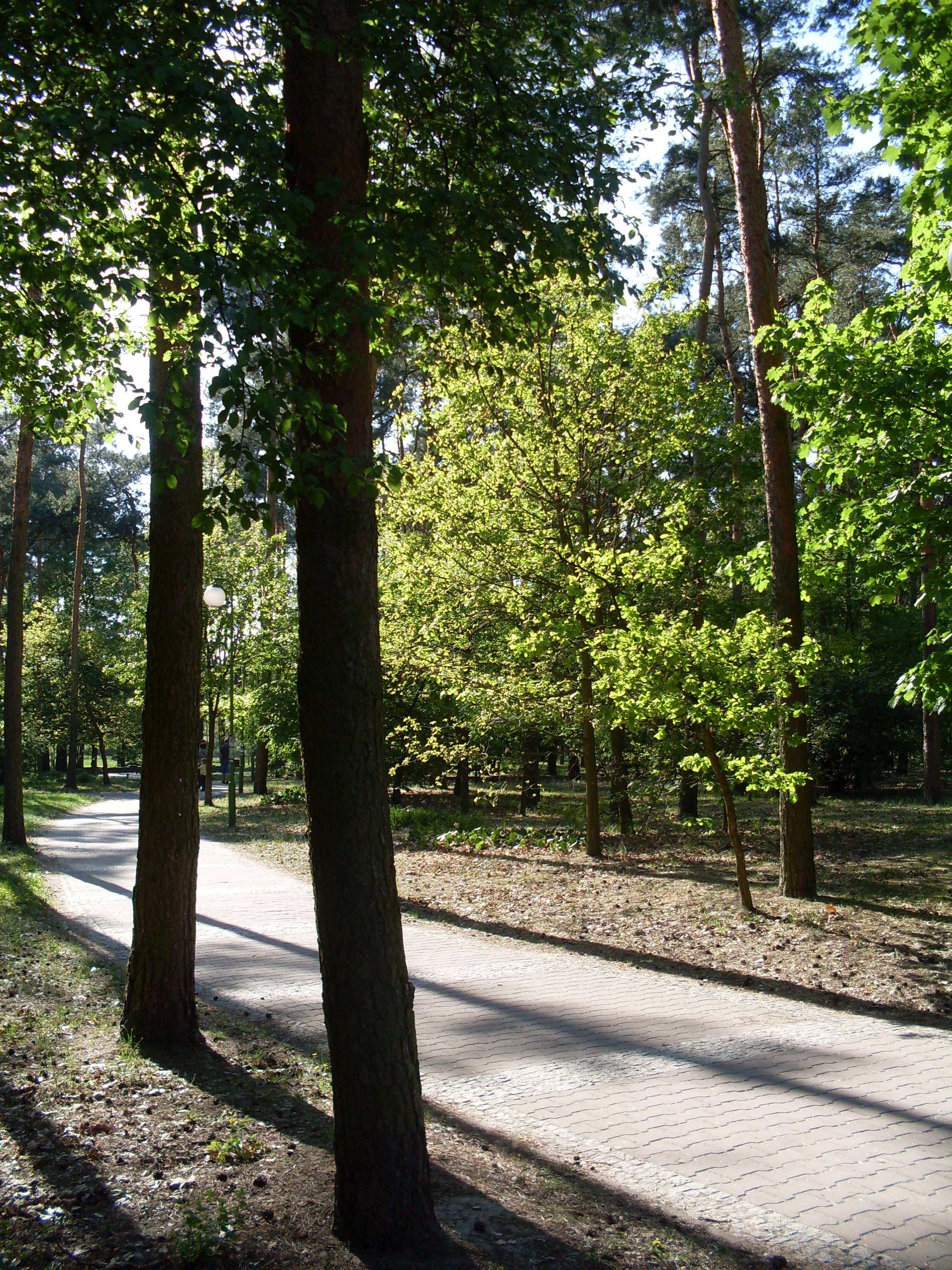 The Solidarność Park in Police, Poland